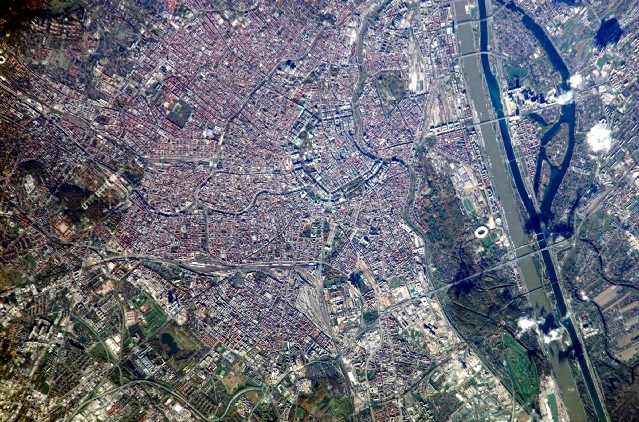 NASA photography of Vienna, Austria